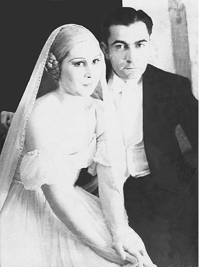 Afrasiyab Badalbeyli and his wife Gamar Almaszadeh